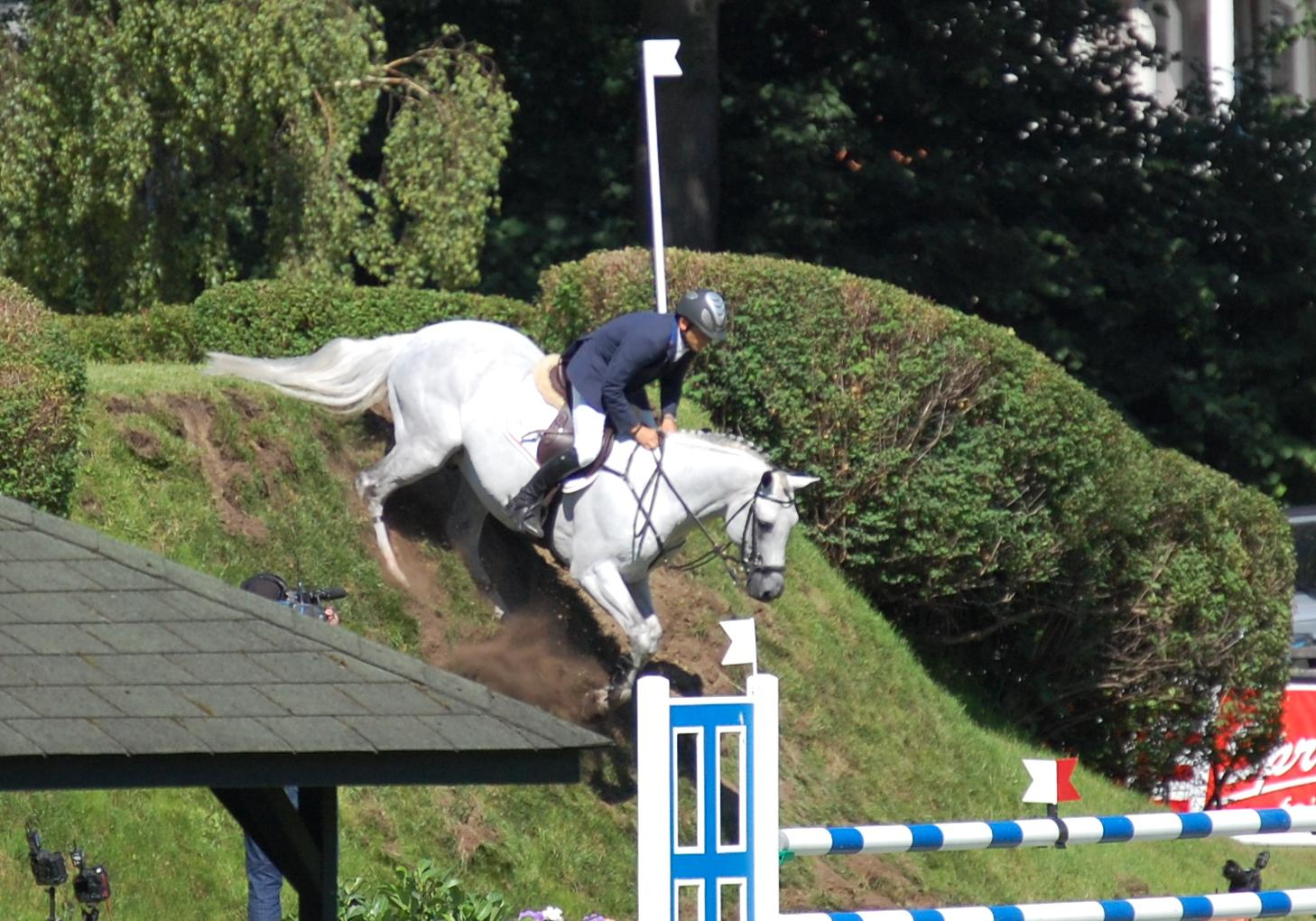 German rider Torben Köhlbrandt with C-Trenton Z, 2nd qualifier to the German show jumping derby in Hamburg 2011 (CSI 3*).